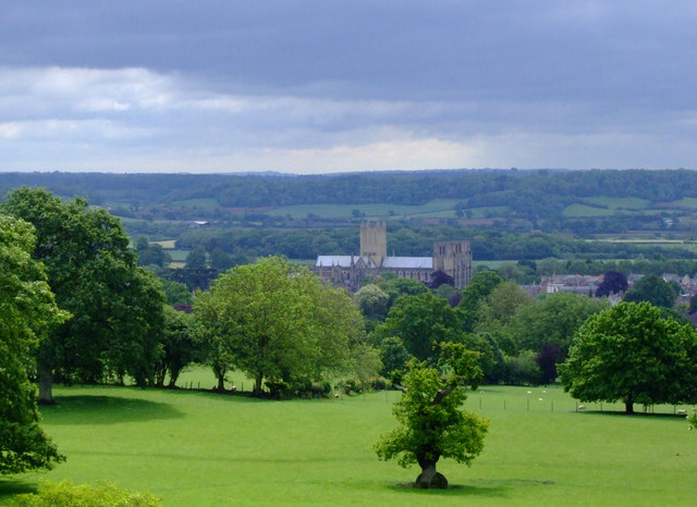 Wells Cathedral from Milton Lodge Taken late morning on the last bank holiday Monday in spring. The day of the annual charity plant sale.